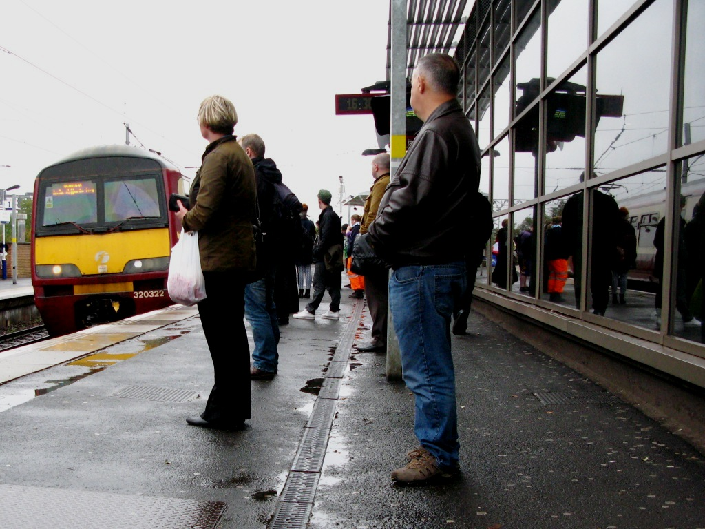 First ScotRail's 320322 pick up westbound North Clyde Line evening commuters at Partick station in Glasgow.